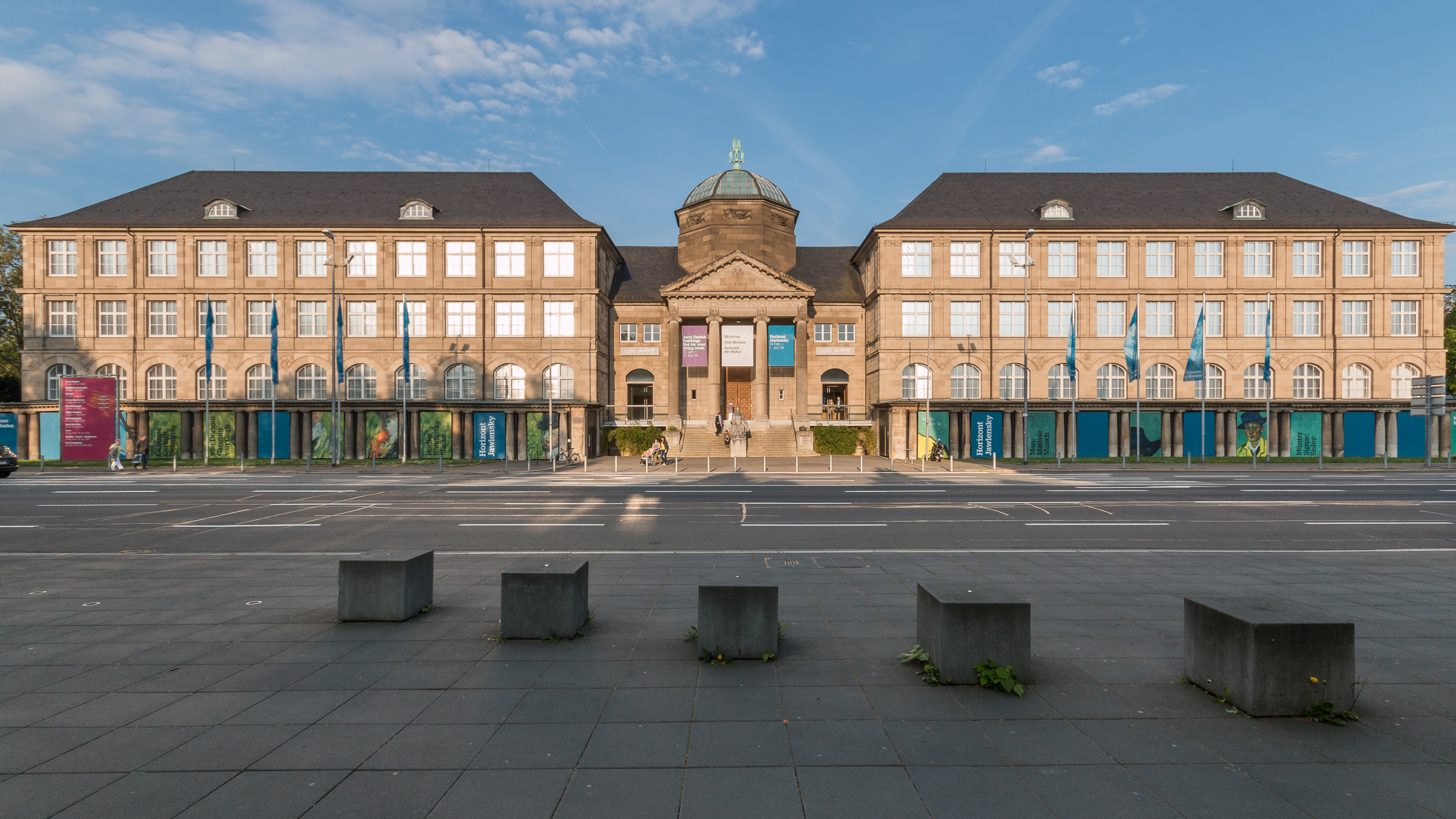 The building of the Museum Wiesbaden at the Friedrich-Ebert-Allee in Wiesbaden